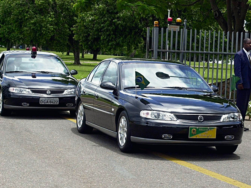 President Lula leaves the Palácio da Alvorada in Brasília.